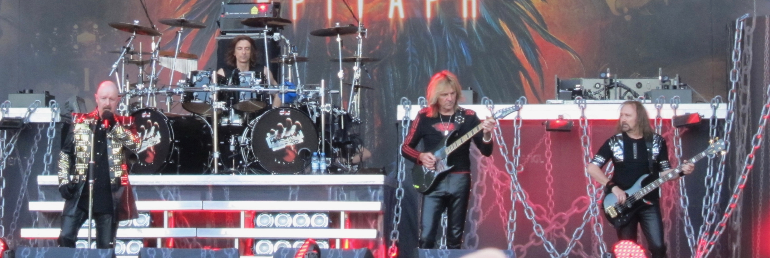 Judas Priest performing at the Sauna Open Air Metal Festival in Tampere, Finland.